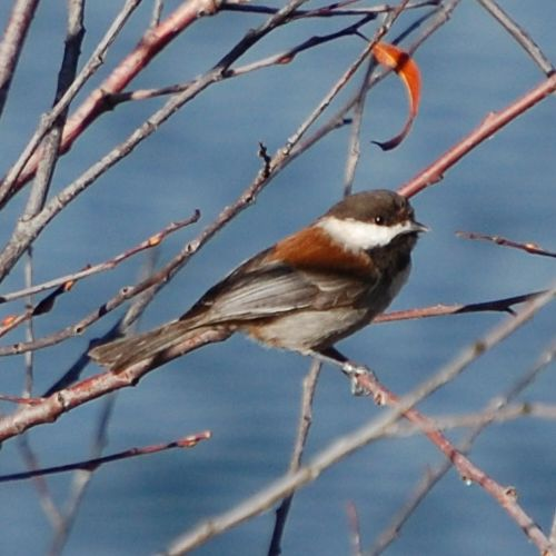 Chestnut-backed Chickadee